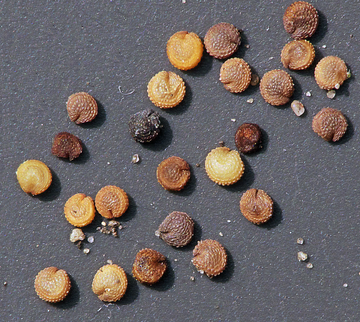 Stellaria media seeds, unripe and ripe